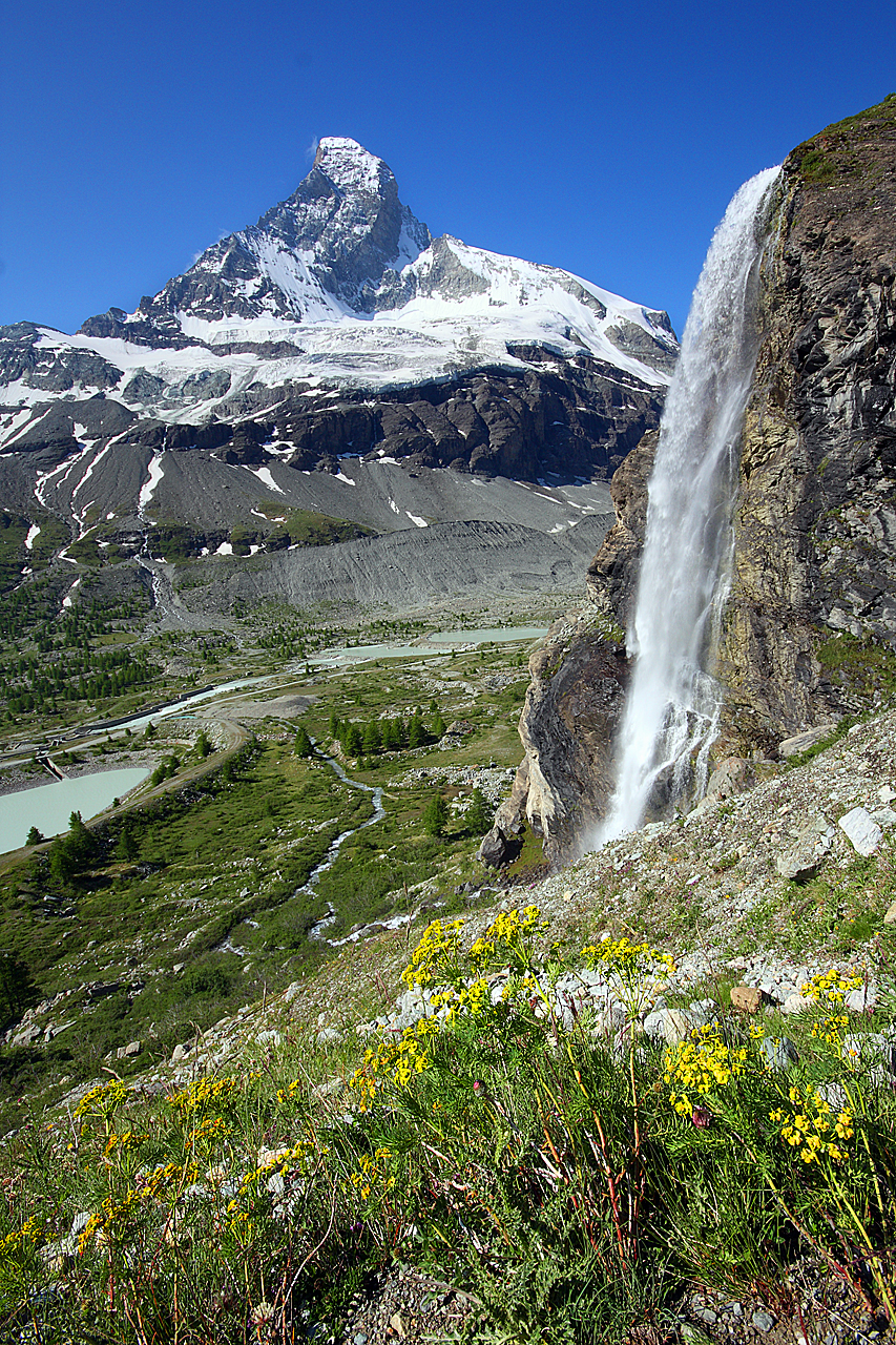 The Matterhorn from the Zmutt valley